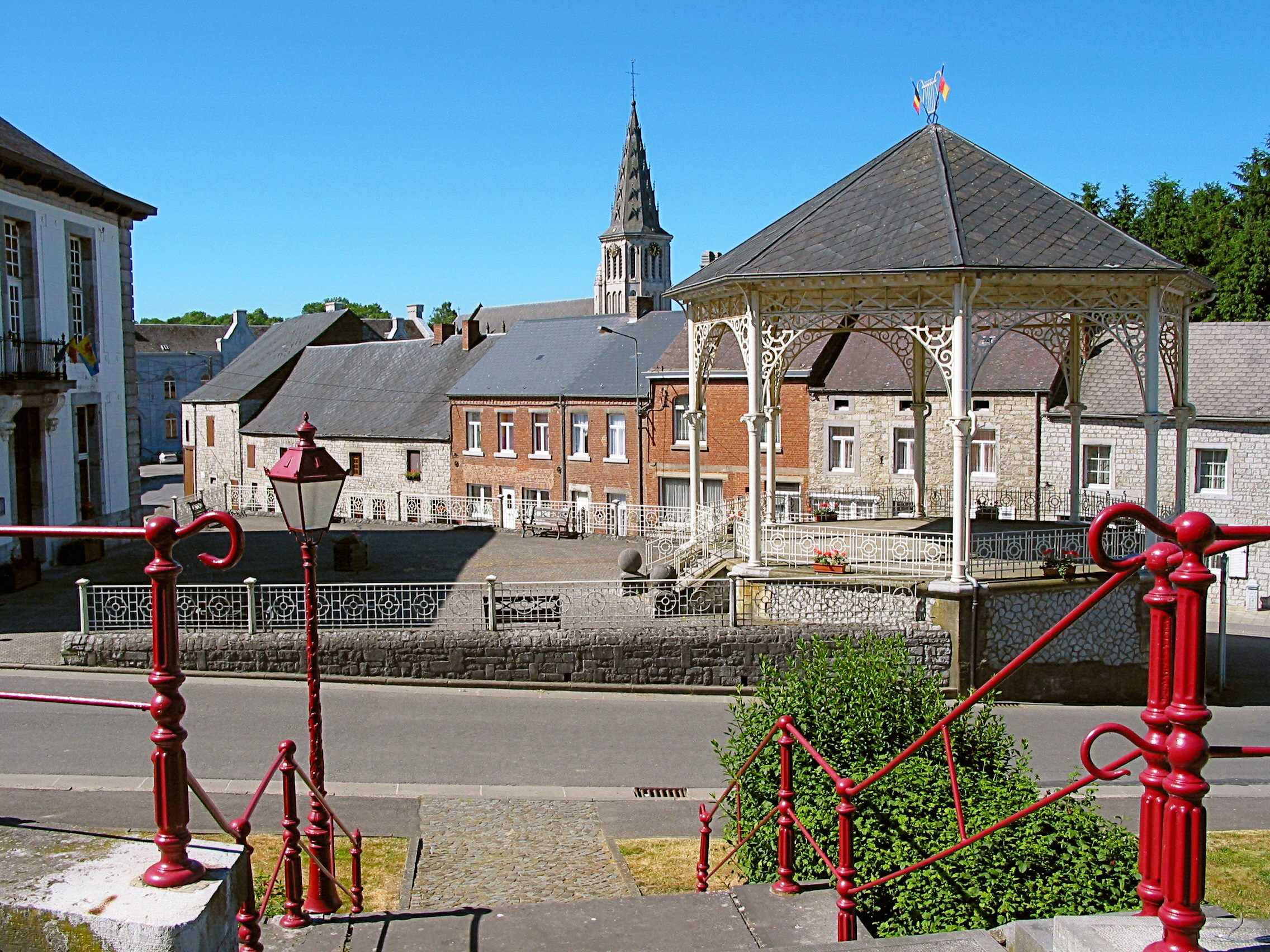 Cerfontaine, rue du Moulin, the pavilion and the St. Lambertus church.